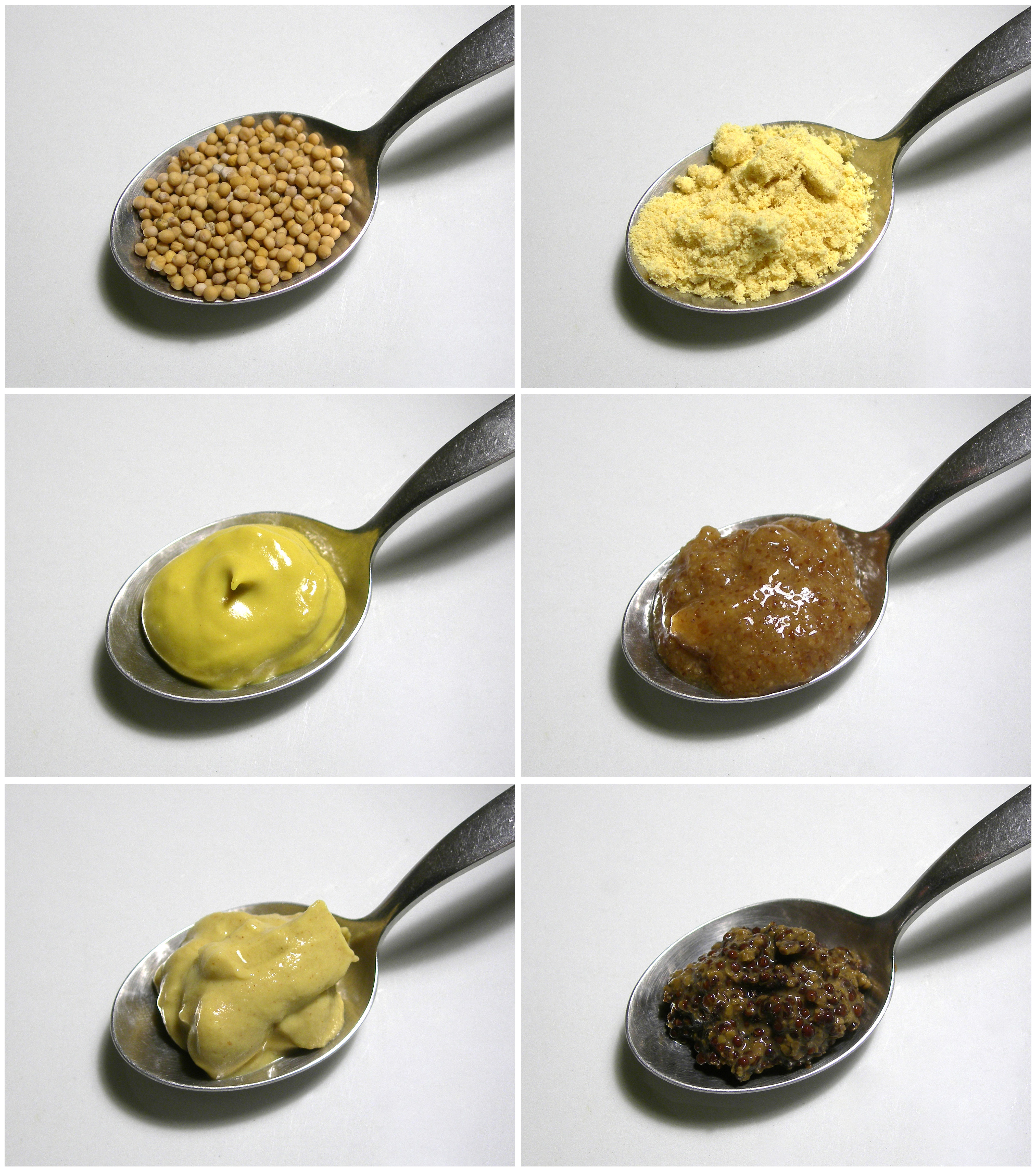 Collage of six mustard-related pictures: upper left: white mustard seeds upper right: white mustard, ground center left: simple table mustard, with turmeric coloring center right: Bavarian sweet mustard lower left: Dijon mustard lower right: Rough French mustard made mainly from black mustard seeds